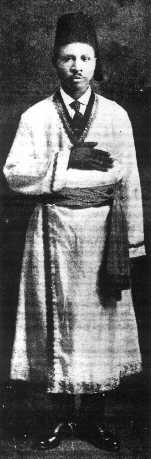 Noble Drew Ali, founder of Moorish Science Temple (precursor to Nation of Islam)